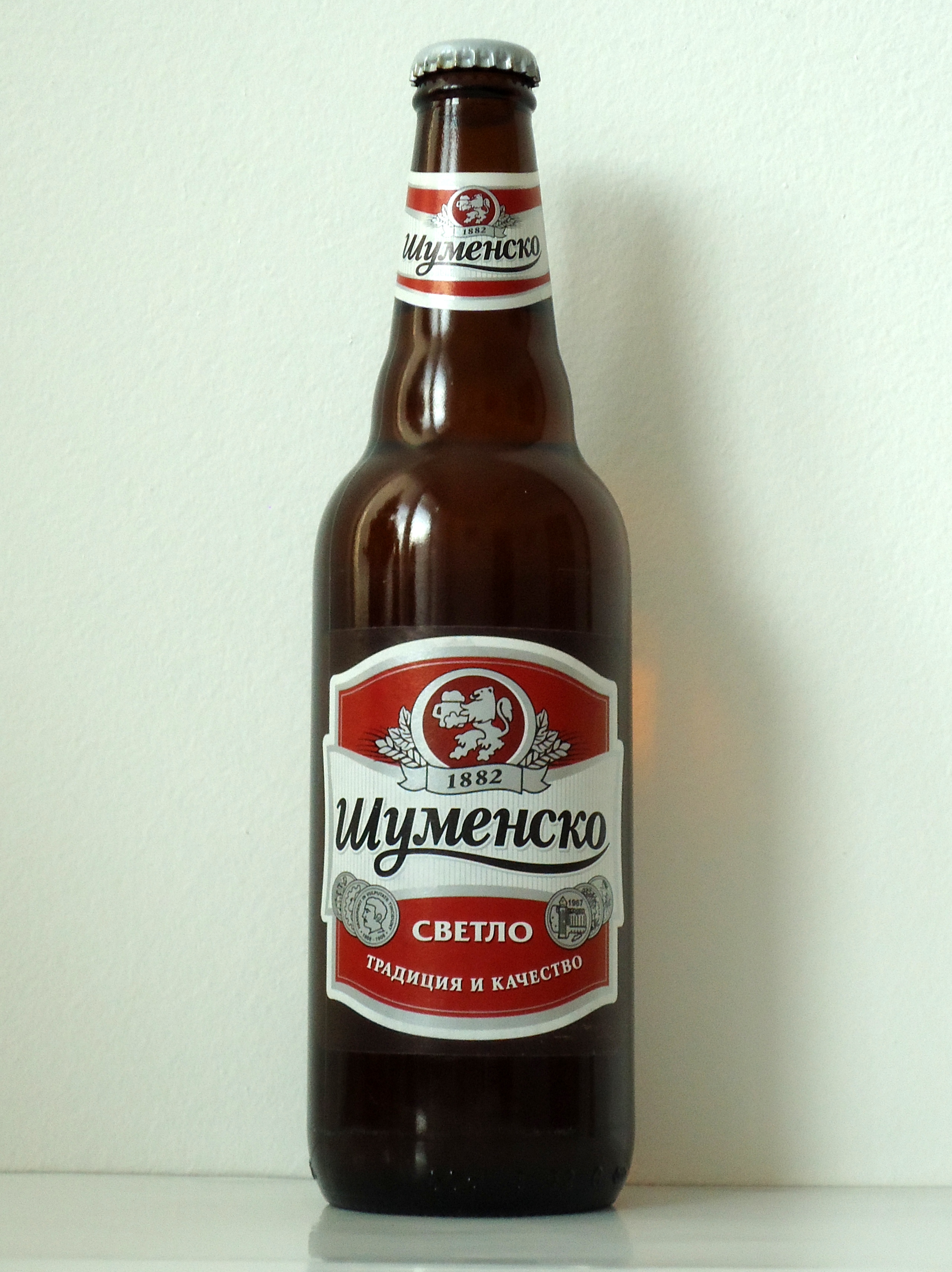 Shumensko Svetlo beer